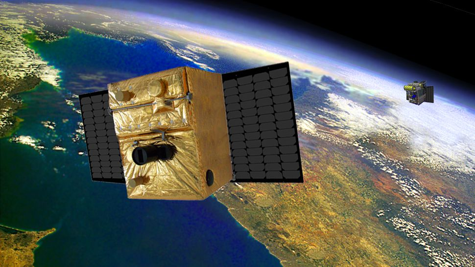 BIROS (background) + TET-1 (forderground) satellites together over the earth for fire seach mission.